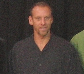 Tom Barrett, Mayor of Milwaukee, Wisconsin, declared October 7, 2007 "Yi Jianlian Day" at a ceremony in the Bradley Center. More info: Xinhuanet Left to right: Unidentified woman, Chinese Consul General to Chicago Huang Ping, Milwaukee mayor Tom Barrett, U.S. Senator from Wisconsin and Milwaukee Bucks owner Herb Kohl, Yi Jianlian, Bucks coach Larry Krystkowiak, Bucks players Andrew Bogut and Michael Redd, Bucks general manager Larry Harris